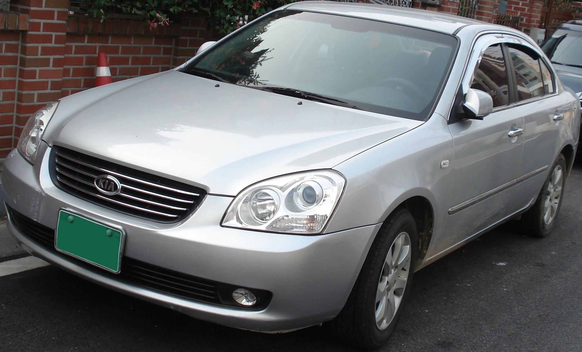 Kia Lotze